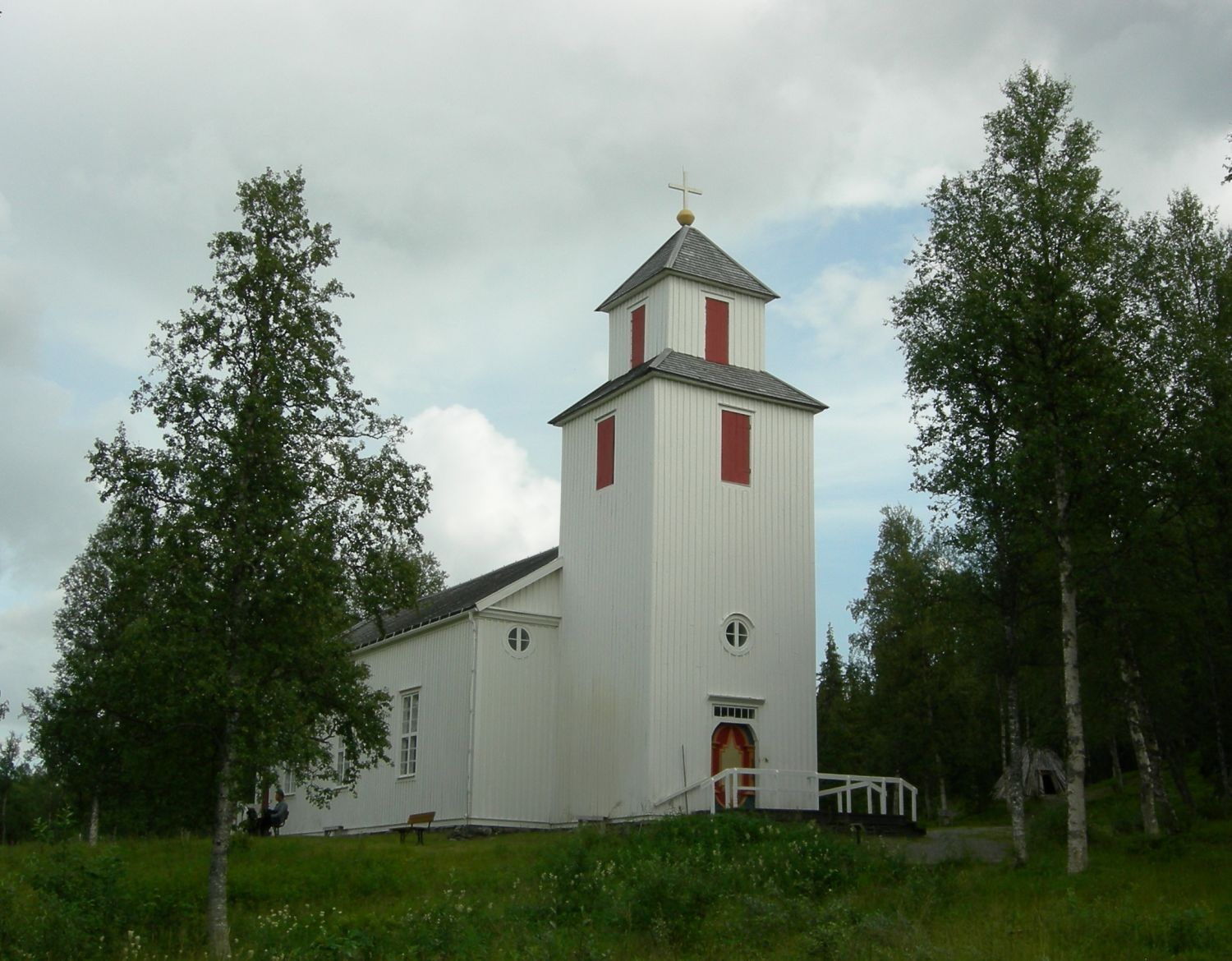 Fatmomakke church, Vilhelmina kommun, Västerbotten, Sweden